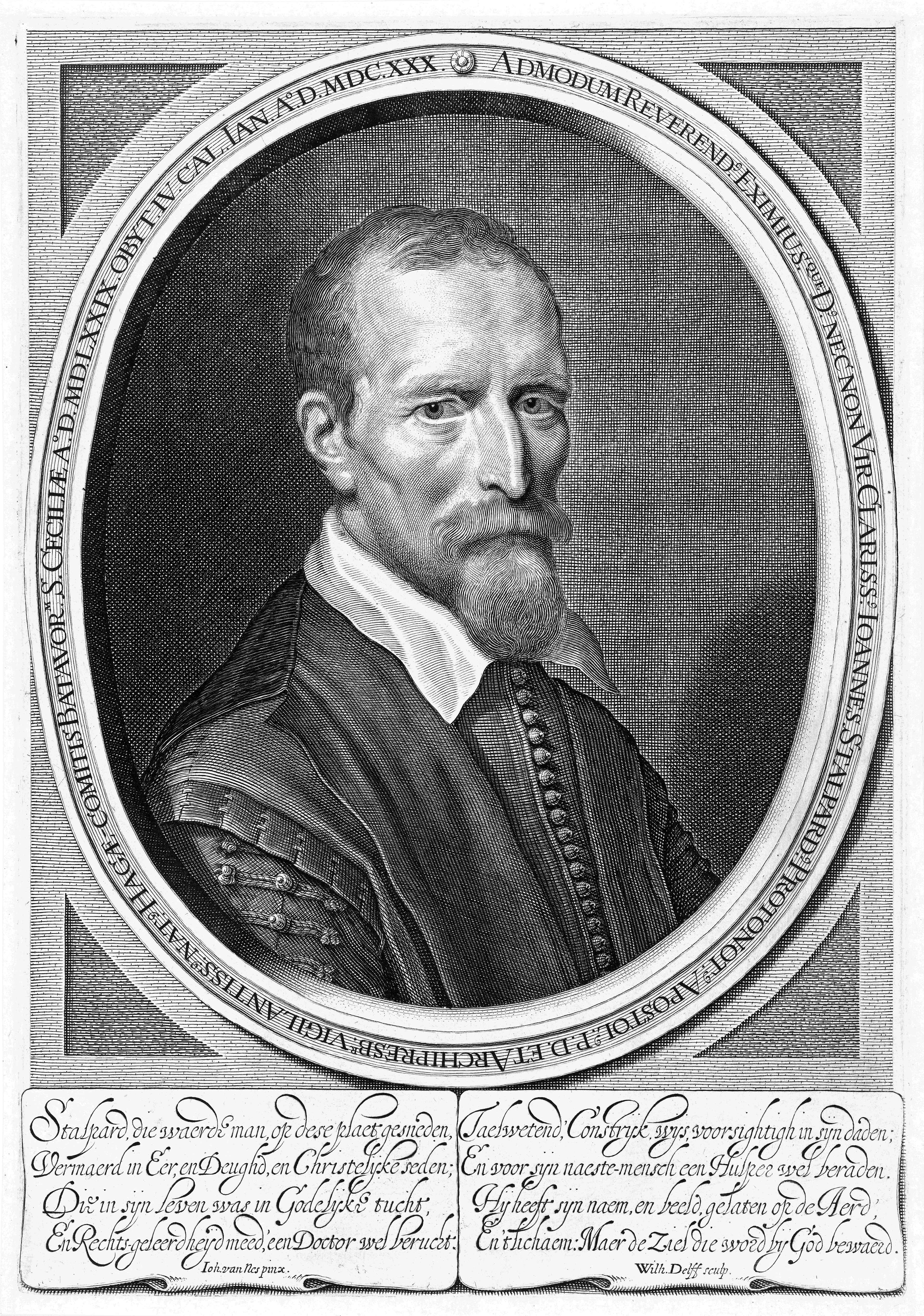 Portrait of Johannes Stalpaert van der Wiele, chest piece in plain clothes in oval picture frame with Latin inscription. In bottom margin with two cartouches Dutch verse in two couplets of four lines.